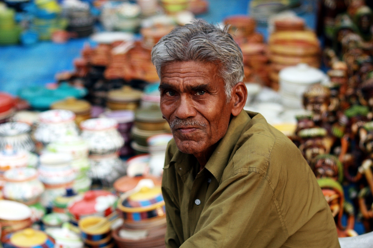 handicrafts seller at shiparamam Hyderabad